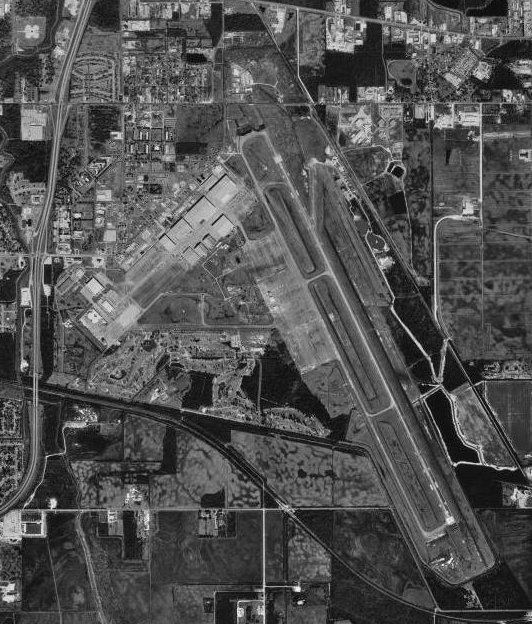 USGS digital orthophoto of Chennault International Airport (formerly Chennault Air Force Base) in Lake Charles, Louisiana, United States